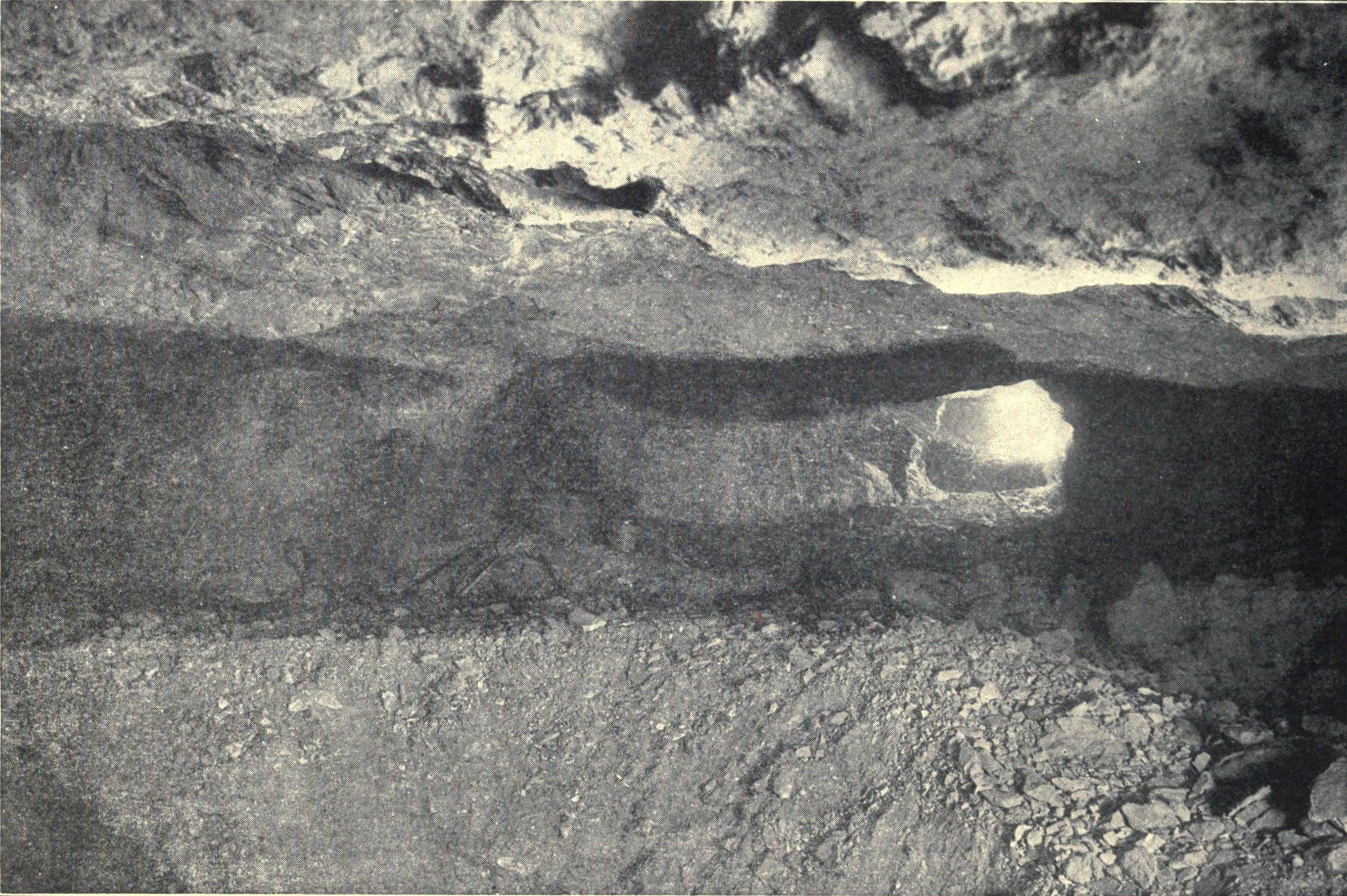 A large stope in the Treadwell gold mine, Douglass Island, Alaska, 1908. A stope is an excavated underground cavity. The stopes at Treadwell were left mostly full of broken ore to provide a place for the miners to stand as they excavated upwards, then emptied when completed. Thick walls were left as pillars between stopes to support the rock overhead.